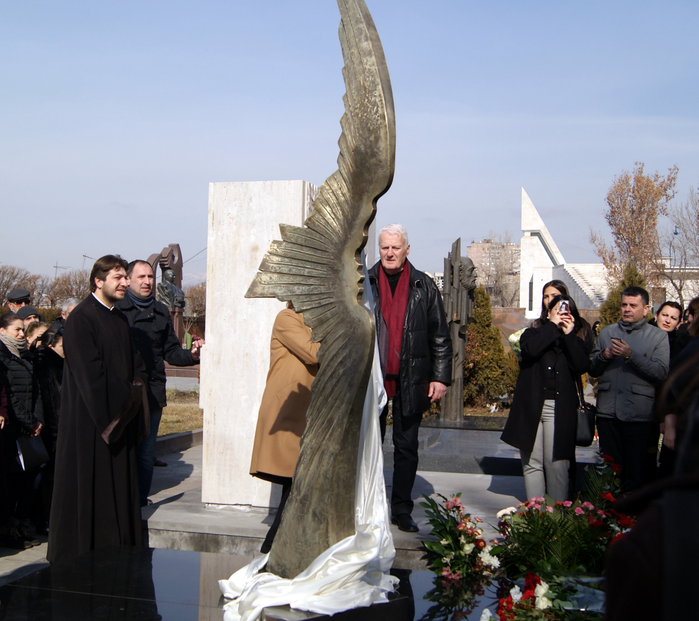 Muraz Murvanidze at theh openniing of Gegham Grigoryan's Monument in Yerevan